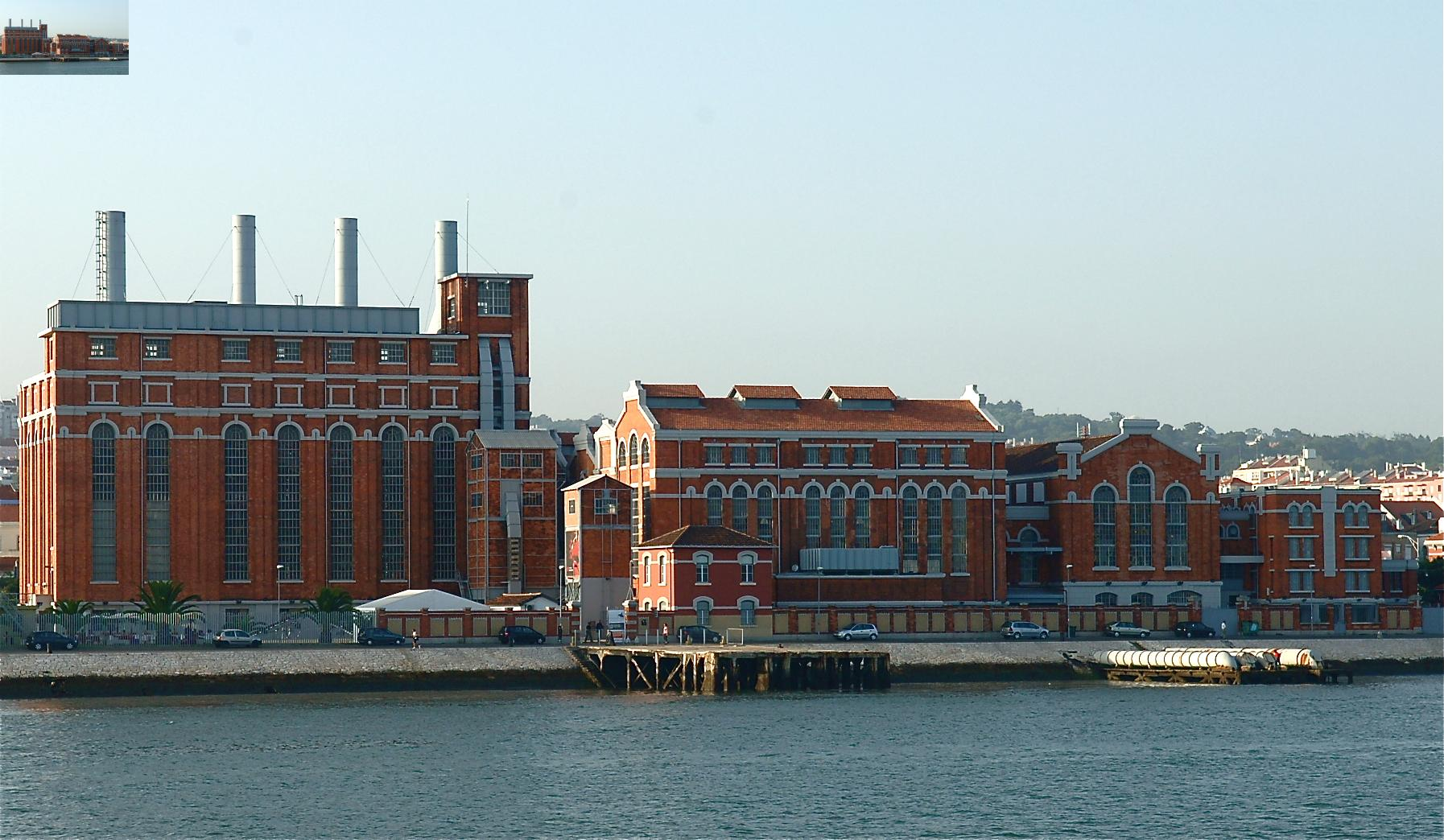 Lisbon, Portugal, "Tagus River"